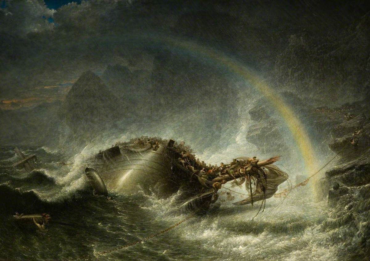 The Shipwreck